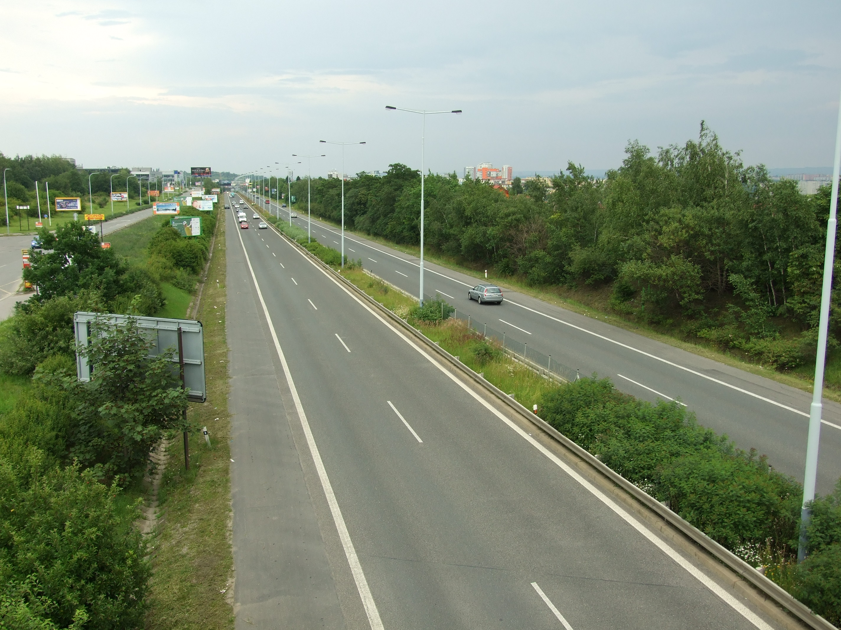 Rozvadovská spojka freeway from Nové Butovice to Zličín in Prague, CZ. This picture was taken from a bridge over the freeway located near Butovicehelp